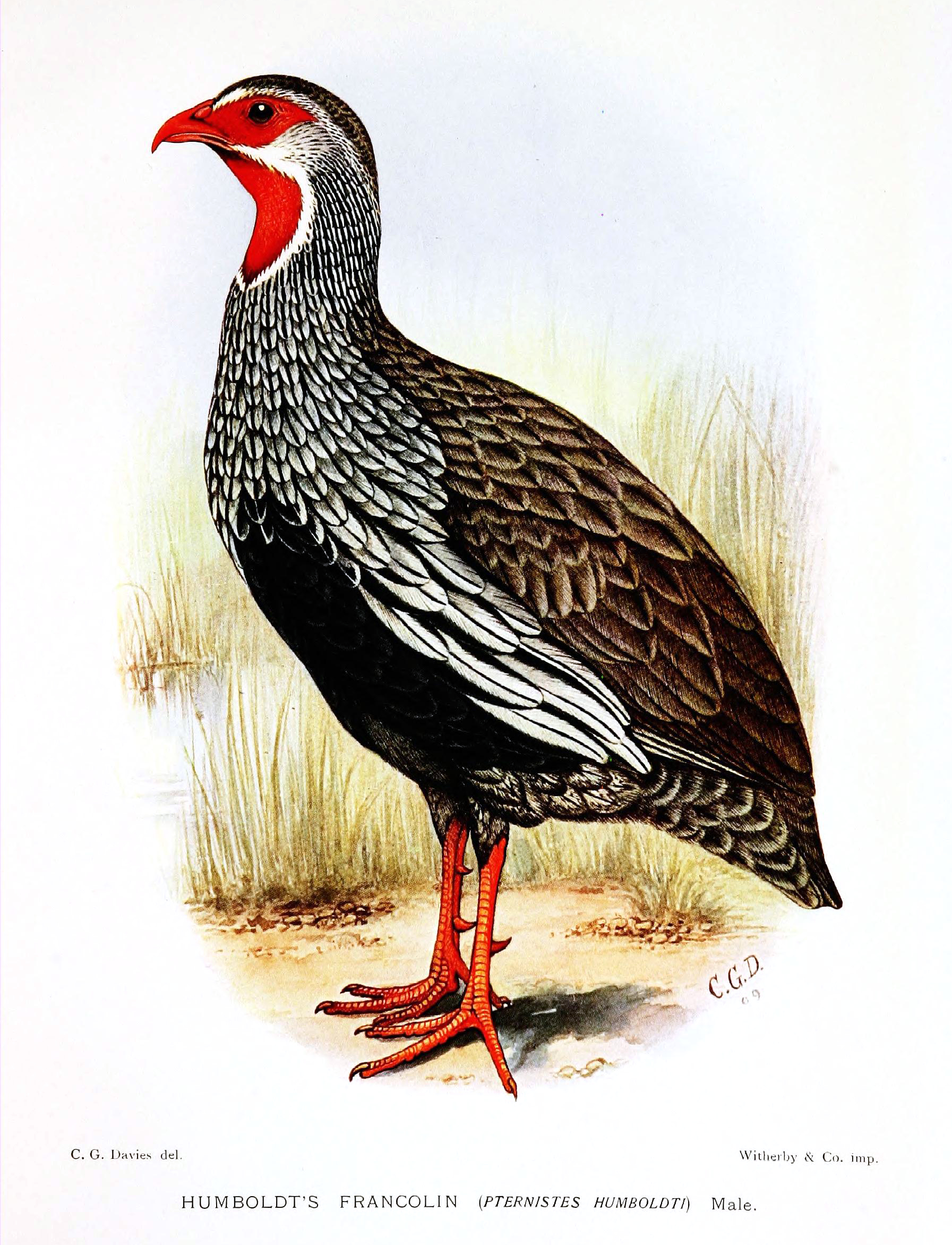 Red-necked spurfowl by C.G. Finch-Davies